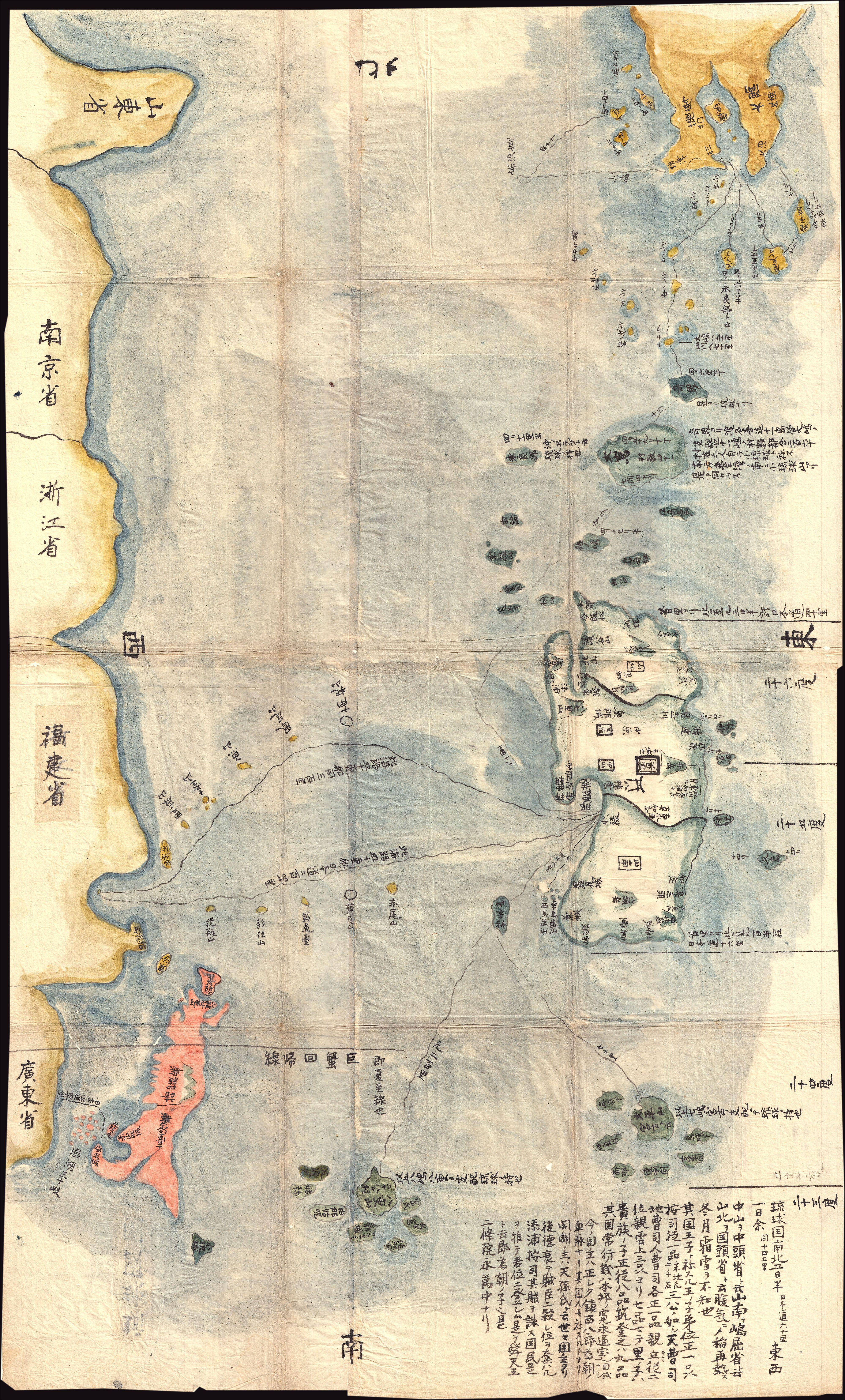 This extraordinary discovery is a previously unknown 1781 (Temmei 1 ) manuscript map of Taiwan and the Satsuma Daimyo. This rare map covers from the southern shores of Kyushu south along the Ryukyu Islands (including Okinawa) to Taiwan and the coastline of mainland China. The powerful Satsuma Daimyo, which flourished and enjoyed special privileges under the Tokugawa Shoguns, controlled much of the territory shown here. What is most remarkable about this piece is that knowledge of this region would have been very rare and restricted information during under the Tokugawa era Kaikin system of national isolation. Despite the isolationist policy, limited trade and information exchange did exist. One of the unique privileges associated with Satsuma control of the Ryukyu Islands was greater independence and freedom of foreign trade than most of Edo period daimyo were permitted. Consequently Satsuma trading vessels regularly traveled to Taiwan and mainland China thus acting as one of isolationist Japan’s few links to the outside world. This chart can be best understood in this context – as a rare glimpse of Satsuma's nautical trade routes between Kyushu, Taiwan, and mainland China. Later in the Meiji period, the wealth, power, and international sophistication of the Satsuma Daimyo would have a significant influence on the Meiji Ishin or Meiji Restoration. A once in a lifetime find.